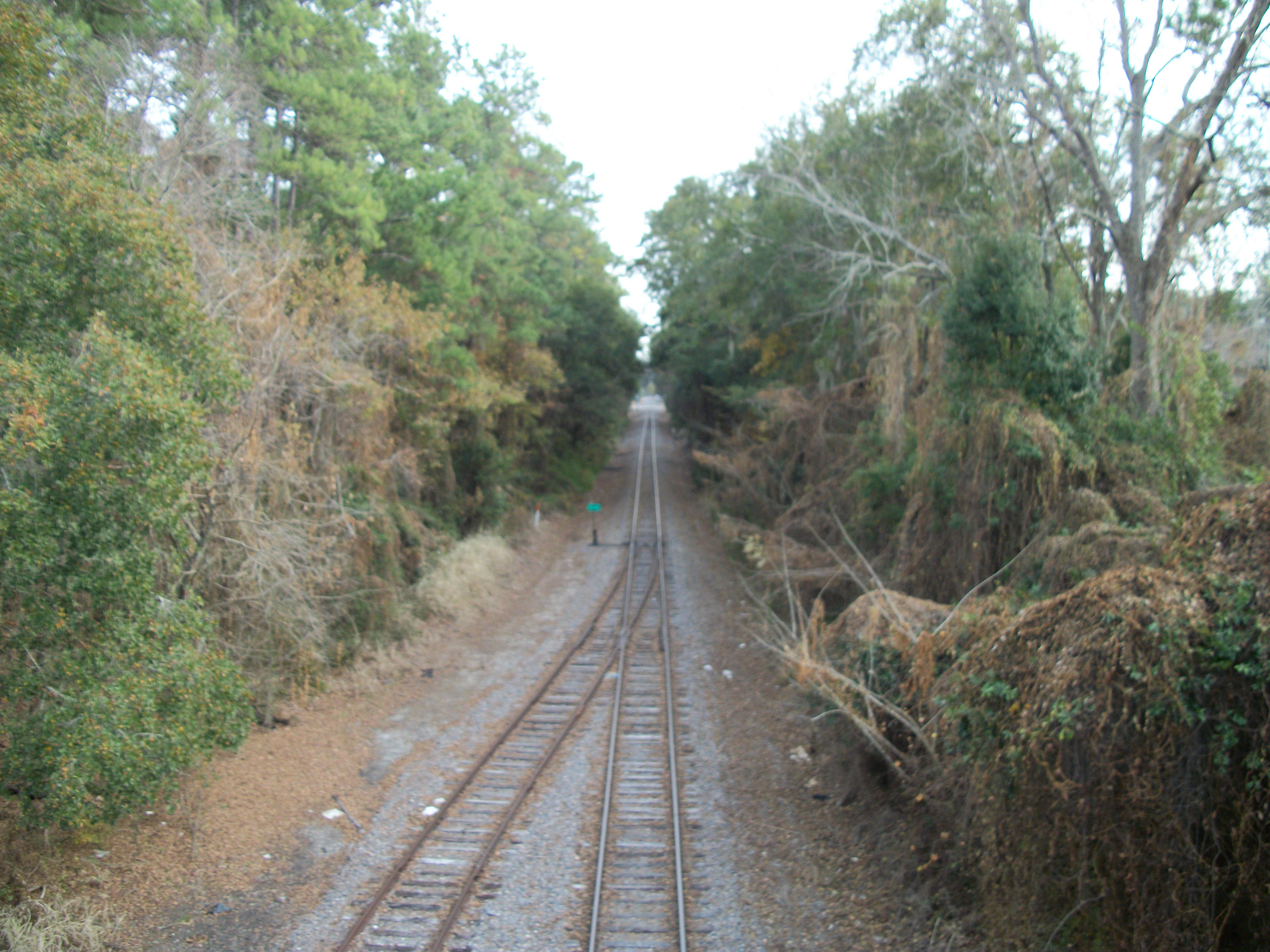 Looking south at the CSX Railroad Brooksville Subdivision from the 1936-built Broad Steet Bridge in Brooksville, Florida. The bridge carries northbound US 41, southeastbound US 98, and eastbound SR 50A.